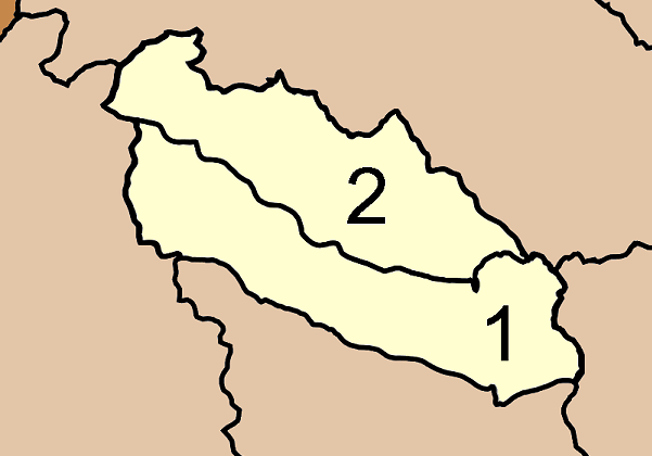 Map of Vibhavadi District, Surat Thani Province, Thailand, with the communes (tambon) numbered. 1.Ta Kuk Tai (ตะกุกใต้) 2.Ta Kuk Nuea (ตะกุกเหนือ)